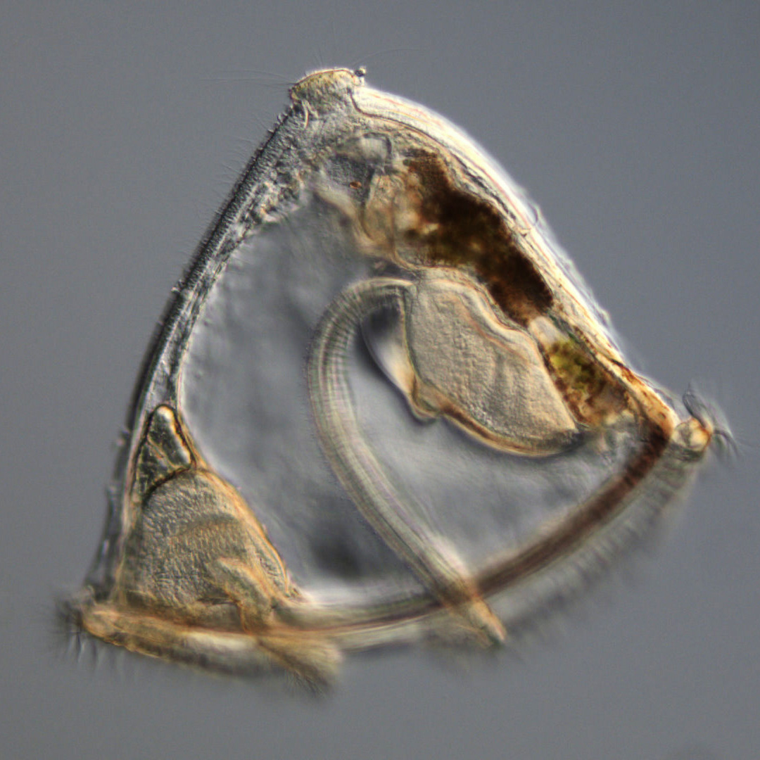 Cyphonautes from plankton sample, Coos Bay Oregon. Likely belonging to Membranipora.